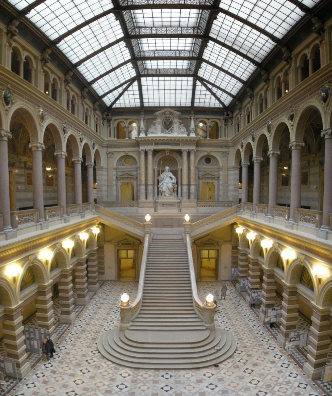 Interior shot of the main hall of the Palace of Justice in Vienna.